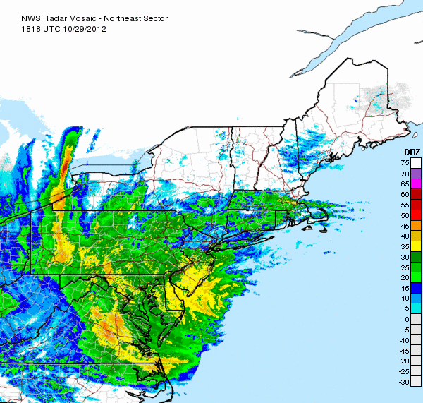 Cloud cover associated with hurricane Sandy spread into the region as early as October 27, while Sandy was still off the Florida coast. As Sandy continued to slowly approach the region, winds began to steadily increase on the 28th, with coastal flooding reported in parts of the Mid Atlantic regions over a day before landfall. The NYC area stayed mostly dry during this time period through early on the 29th other than scattered showers at times; meanwhile, heavy rain was already affecting southeastern parts of the region, especially in the Delmarva Peninsula, on the 28th, intensifying and spreading into Virginia and Washington DC by the morning of the 29th.